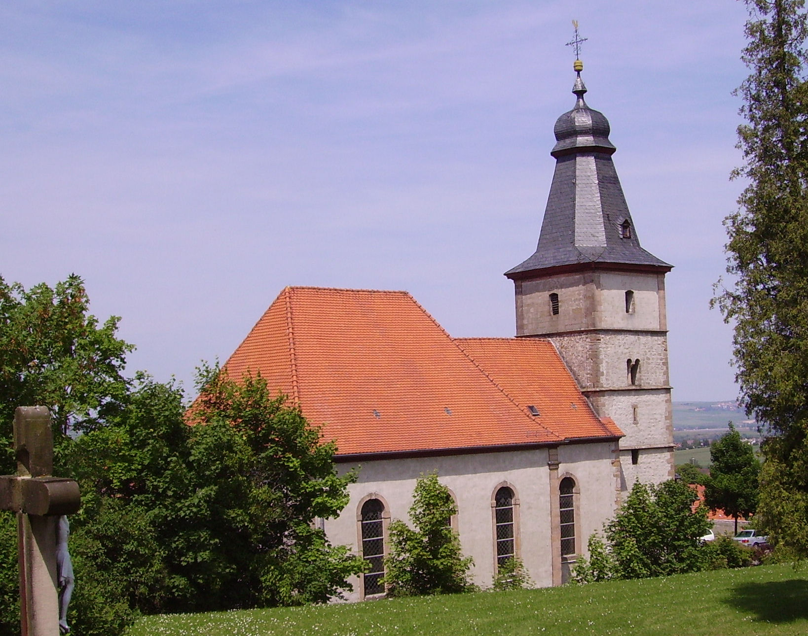 views of Wattenheim in the Palatinate, Germany